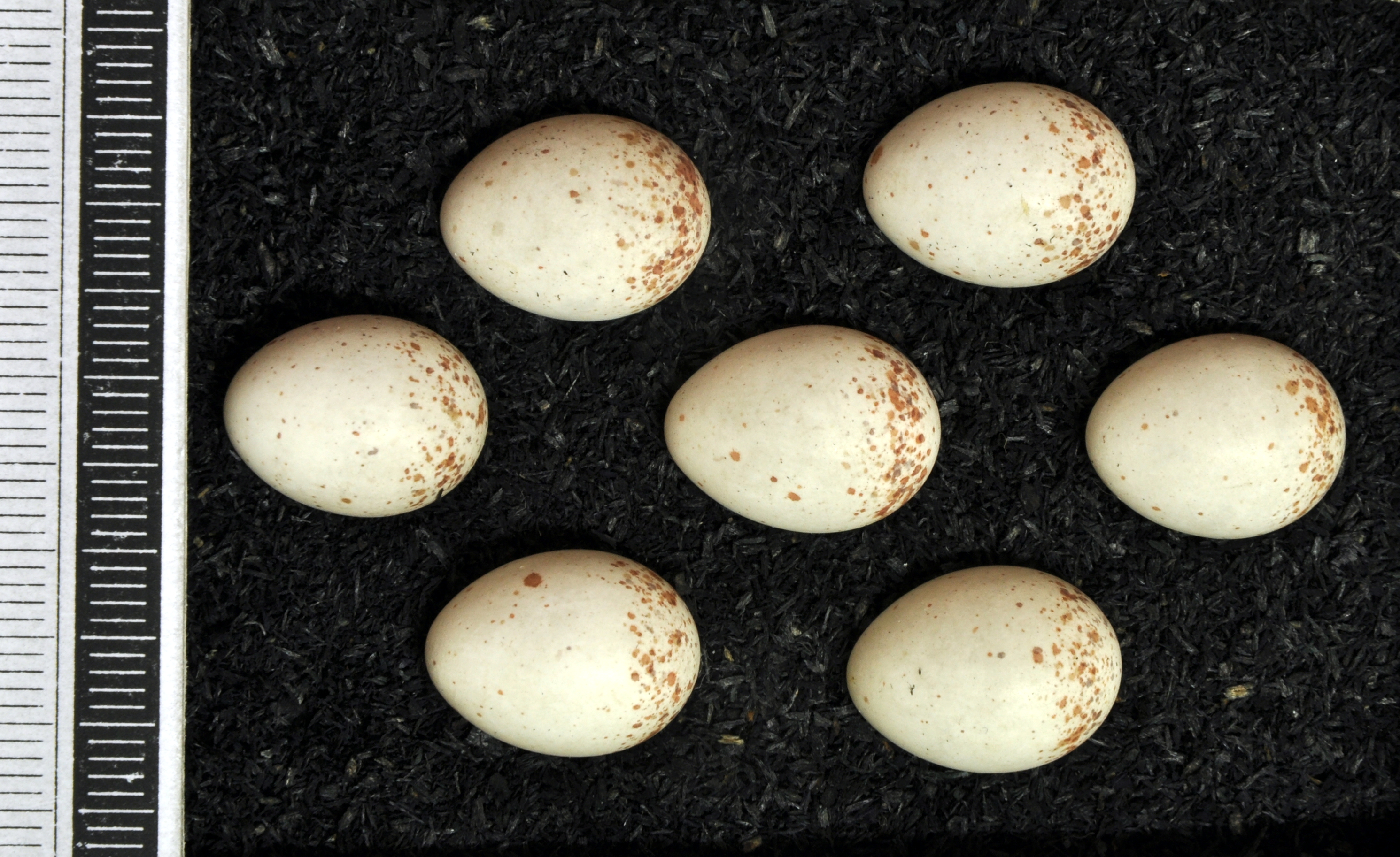 Eurasian treecreeper Certhia familiaris , egg, Coll. Museum Wiesbaden